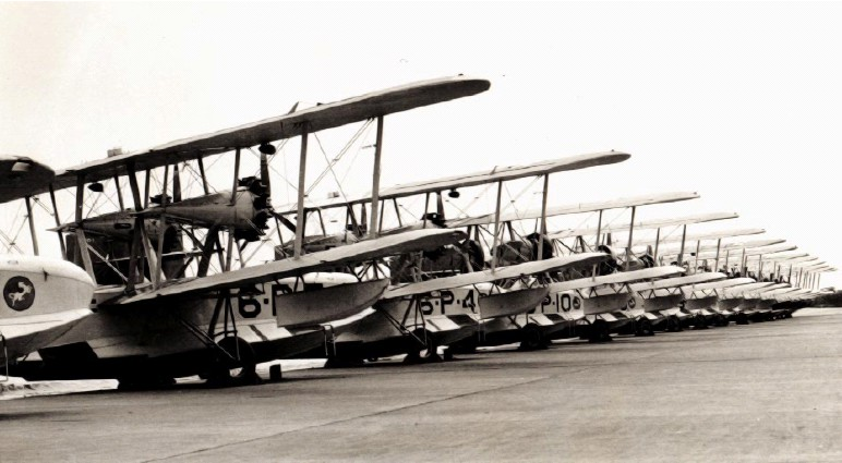 U.S. Navy Douglas PD-1 flying boats of patrol squadron VP-6F lined up at Naval Air Station Ford Island, Pearl Harbor, Hawaii (USA), on occasion of a visit by the U.S. president Franklin D. Roosevelt, 27 February 1934. Note the squadron's pegasus emblem on the first aircraft on the left.